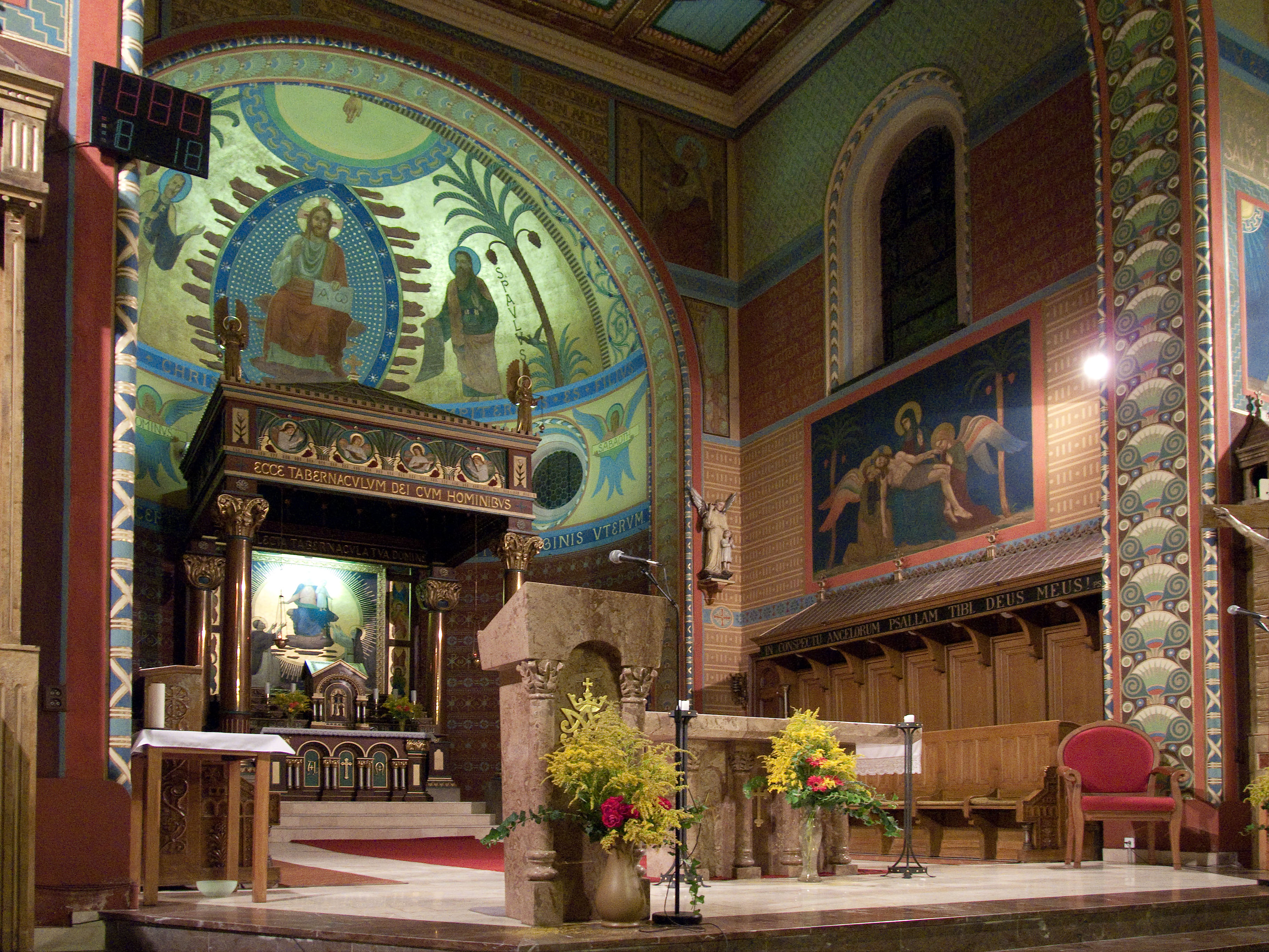 Central view of the Church of the Virgin Mary of the Rosary in České Budějovice, Czech Republic